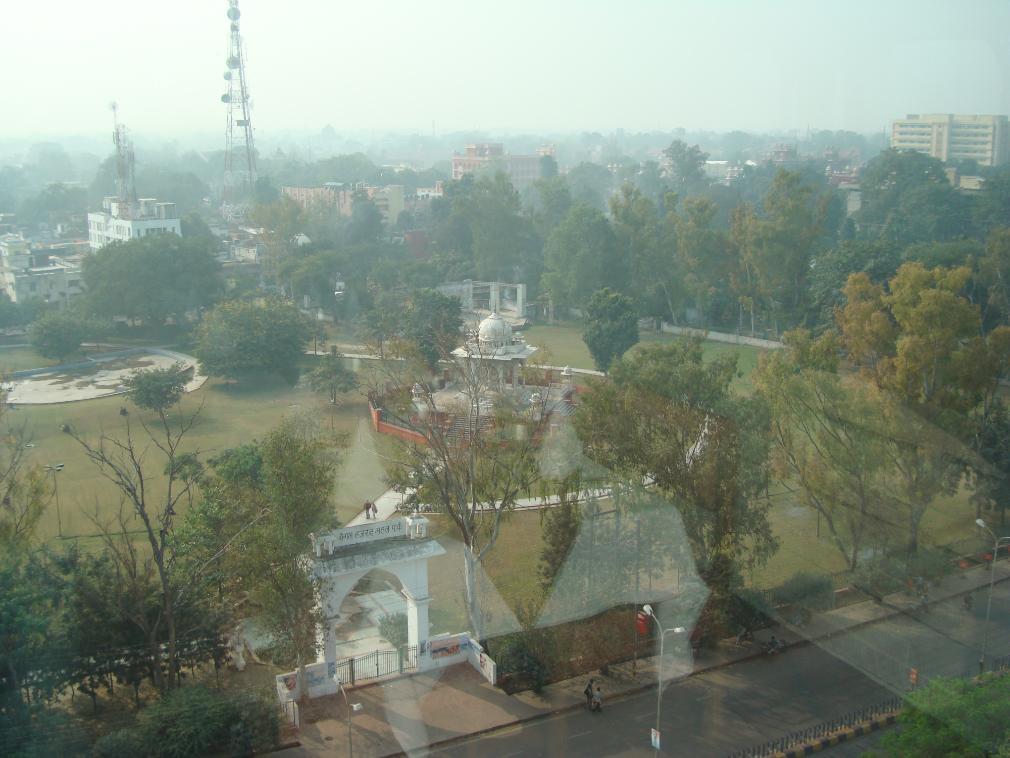 Photo taken by Faiz Haider Summary View of a memorial built for Begum Hazrat Mahal situated at Begum Hazrat Mahal Park, Lucknow from Hotel Clarks Avadh, Lucknow.